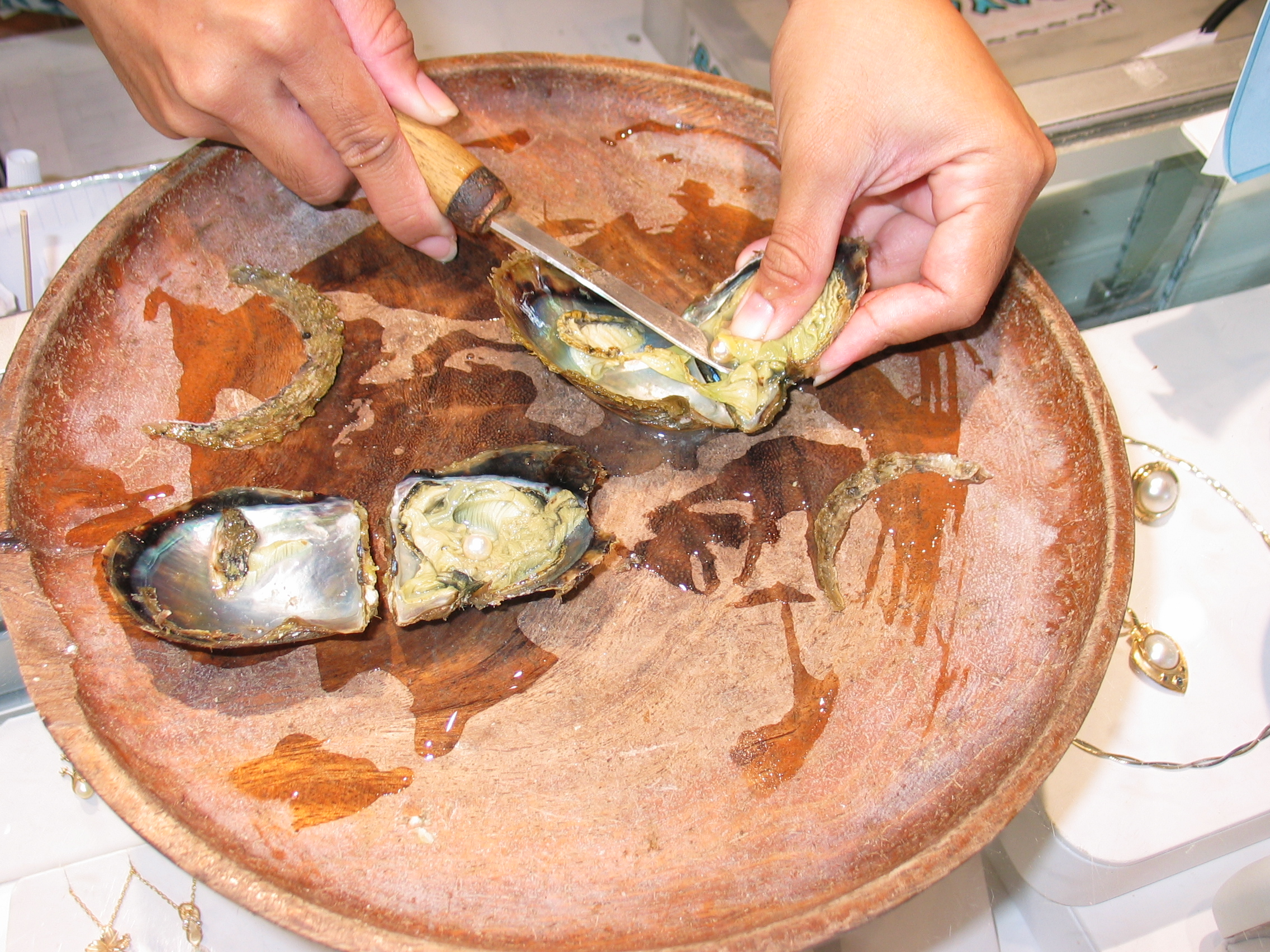 Pearls being removed from oysters.